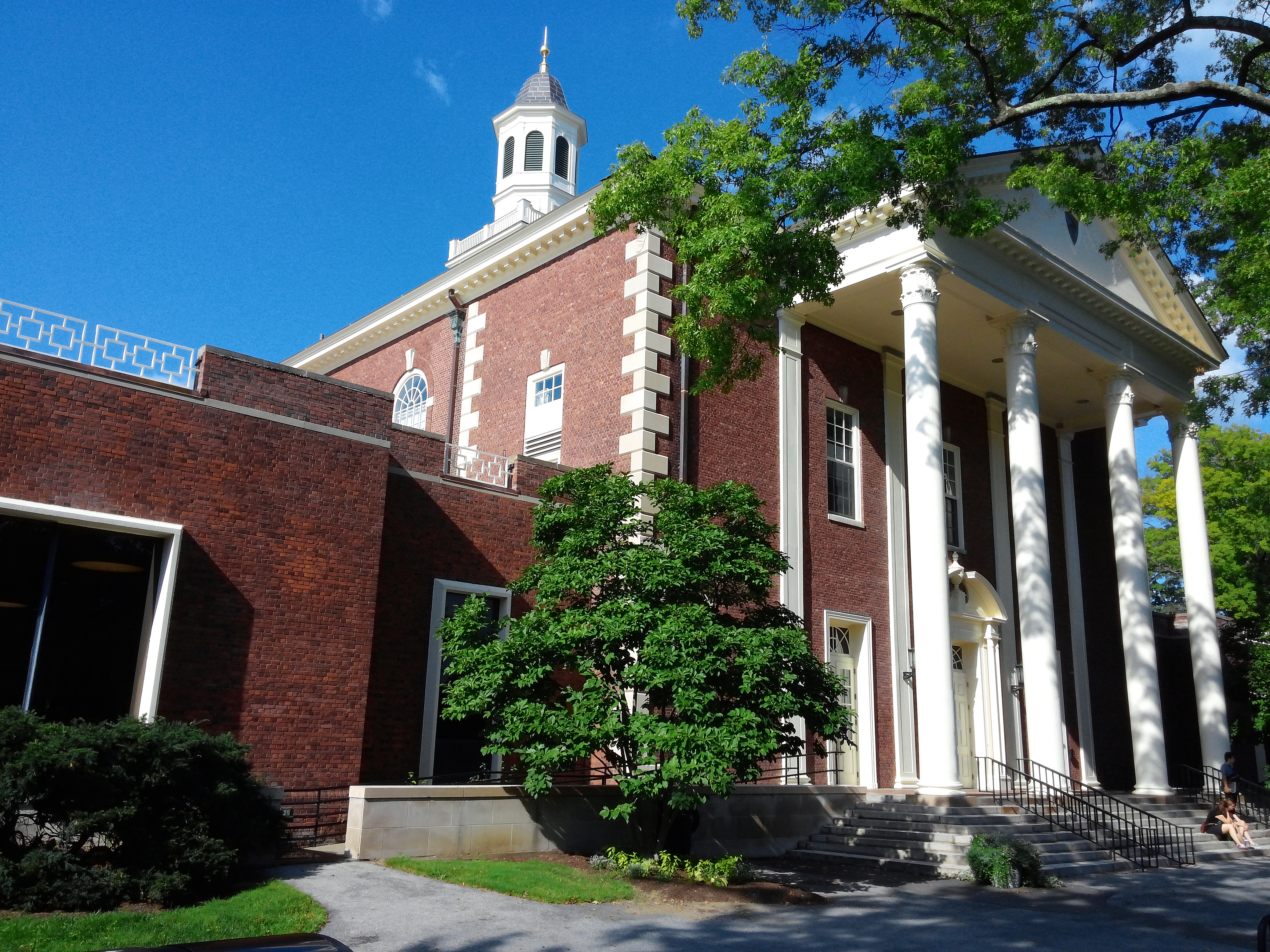 The Students' Building at Vassar College, which houses the All Campus Dining Center and the UpC Cafe.